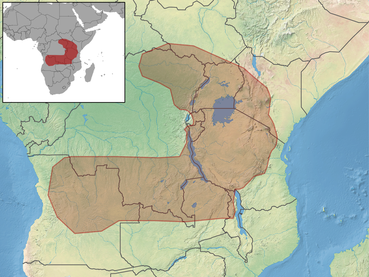 geographic distribution of Zelotomys hildegardeae